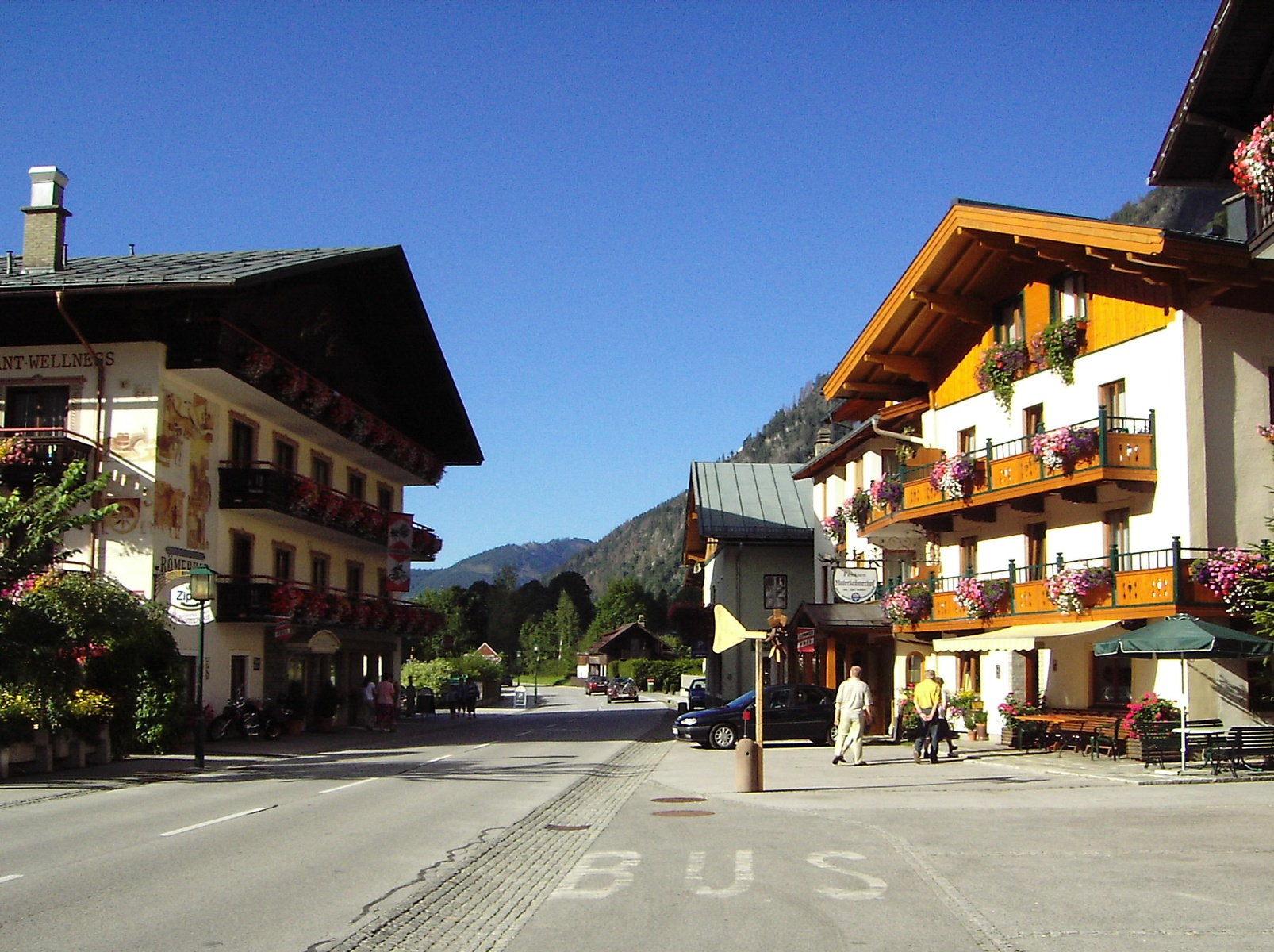 In The Middle Of The Municipality Fusch On Highway Großglockner-Hochalpenstraße, Main Street With The Stereotype Of The Houses, Salzburger Land - Austria